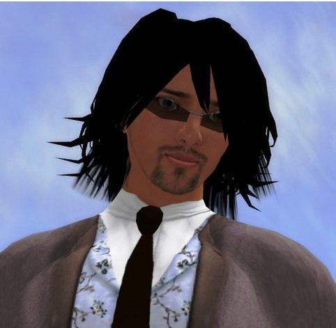 Sidey Myoo, 2007-2010, an avatar from Second Life